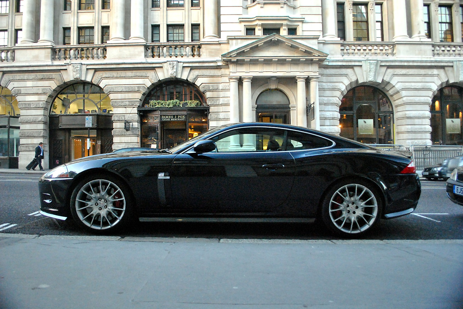 Jaguar XKR pictured in London